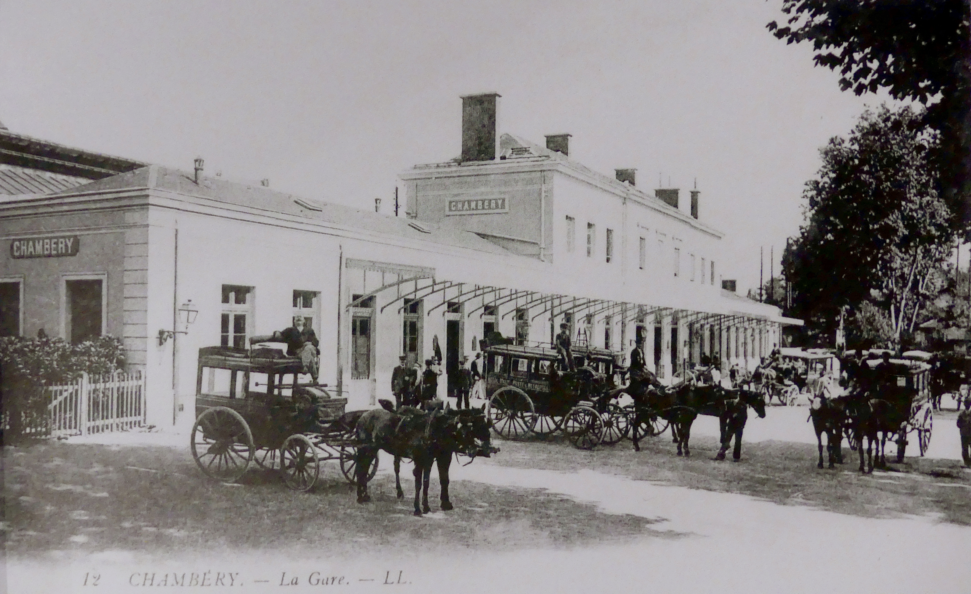 Historical sight Chambéry railway station, in Savoie, France.